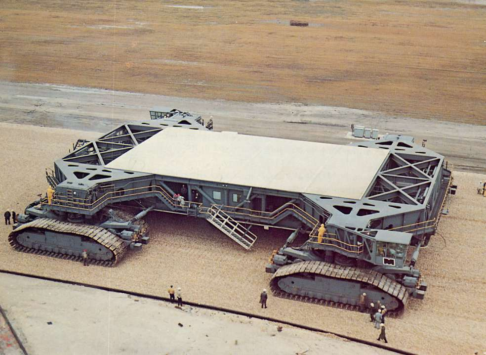 A finished crawler-transporter photographed two days before entering service with NASA in 1966.